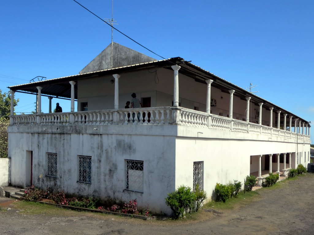 This colonial-era building on boulevard Karthala in Moroni houses the Musee des Comores.